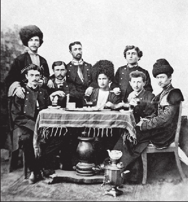 Ilia Chavchavadze with a group of Polish students in St. Petersburg